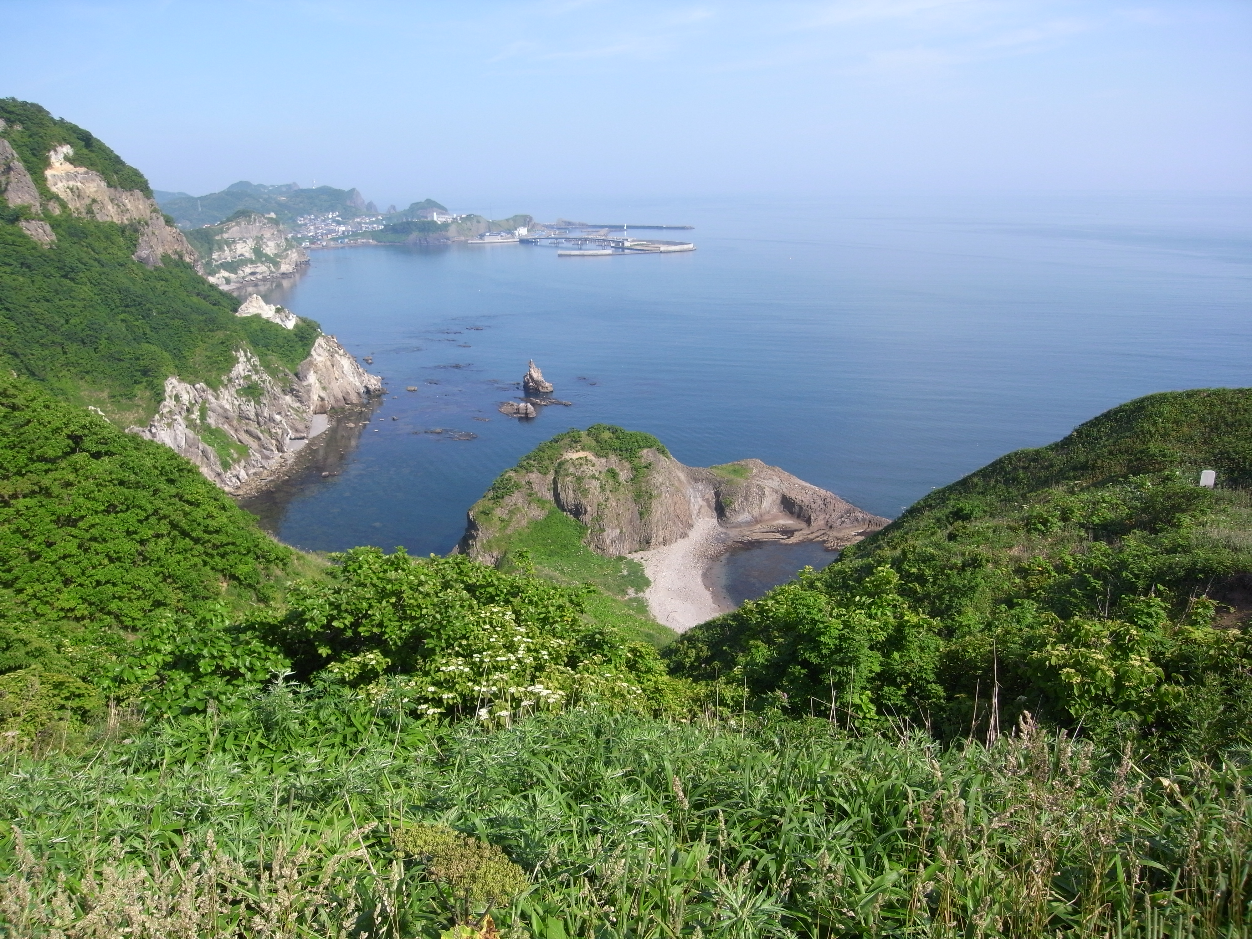 Masuichi Beach.